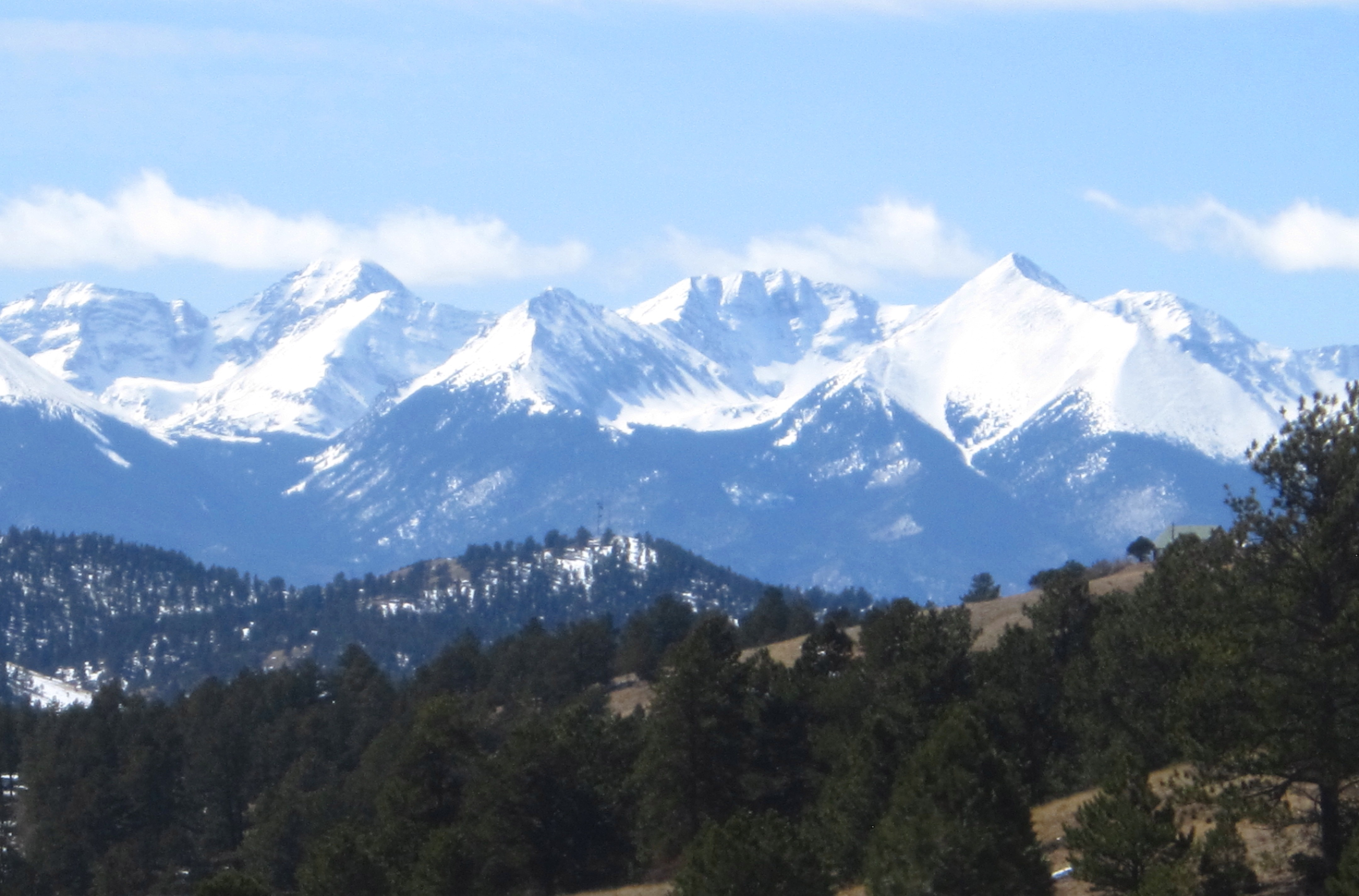 Sangre de Cristo range seen from CO Hwy 96